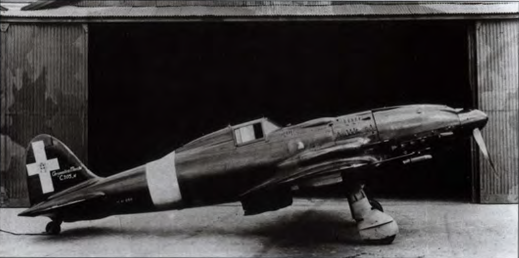 The prototype of the C.205N Orione (M.M. 499) in Guidonia during the military tests